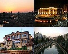 Collage of Eskişehir town